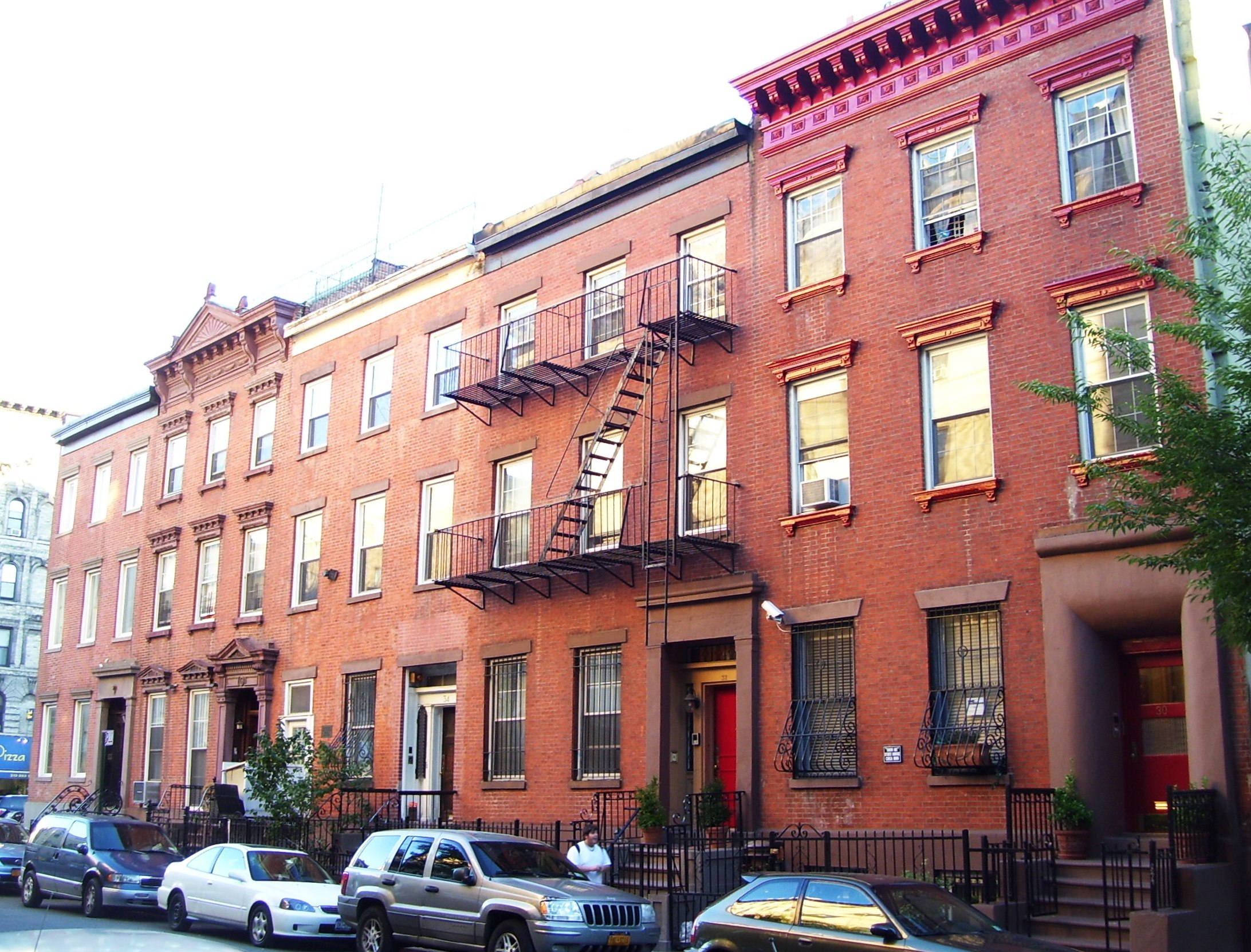 The row houses at 30 (right) to 38 (left) East 3rd Street between 2nd Avenue (at the corner) and the Bowery in the East Village, Manhattan, New York City, were built c.1835-36 in the Greek Revival style. (#30 also has Renaissance Revival elements, and #36 has Queen Anne elements.) The architect or builder of these rowhouses is unknown. #30 has a plaque that says "Show Me" State House circa 1888, with no further explanation (and nothing found on Google). #34 has a plaque naming it Minthorne Marble House, which it says was Established 1831 Constructed 1842 (also no further info via Google) and below it the seal of New Netherland (see File:Sigillum Novi Belgii.JPG). The houses are located within the East Village/Lower East Side Historic District (Source: "East Village/Lower East Side Historic District Designation Report")